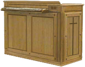 Neuve-France continuo organ built by Laliberté-Payment Organ Builders Ltd